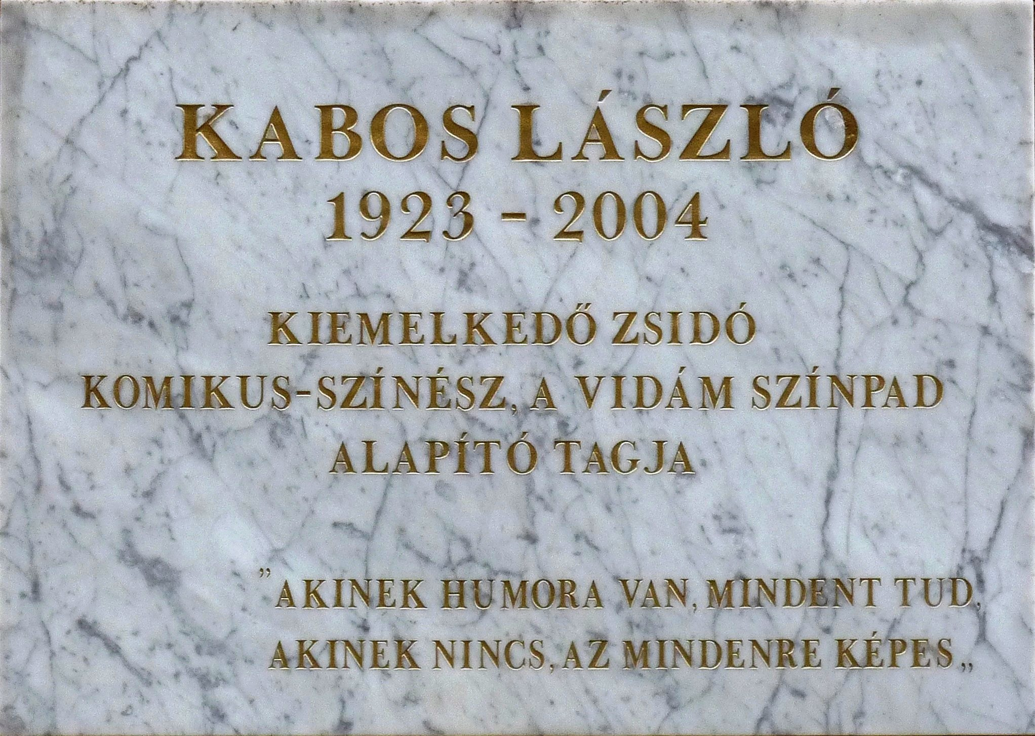 László Kabos commemorative plaque in Budapest District VI, Révay Street No 16.